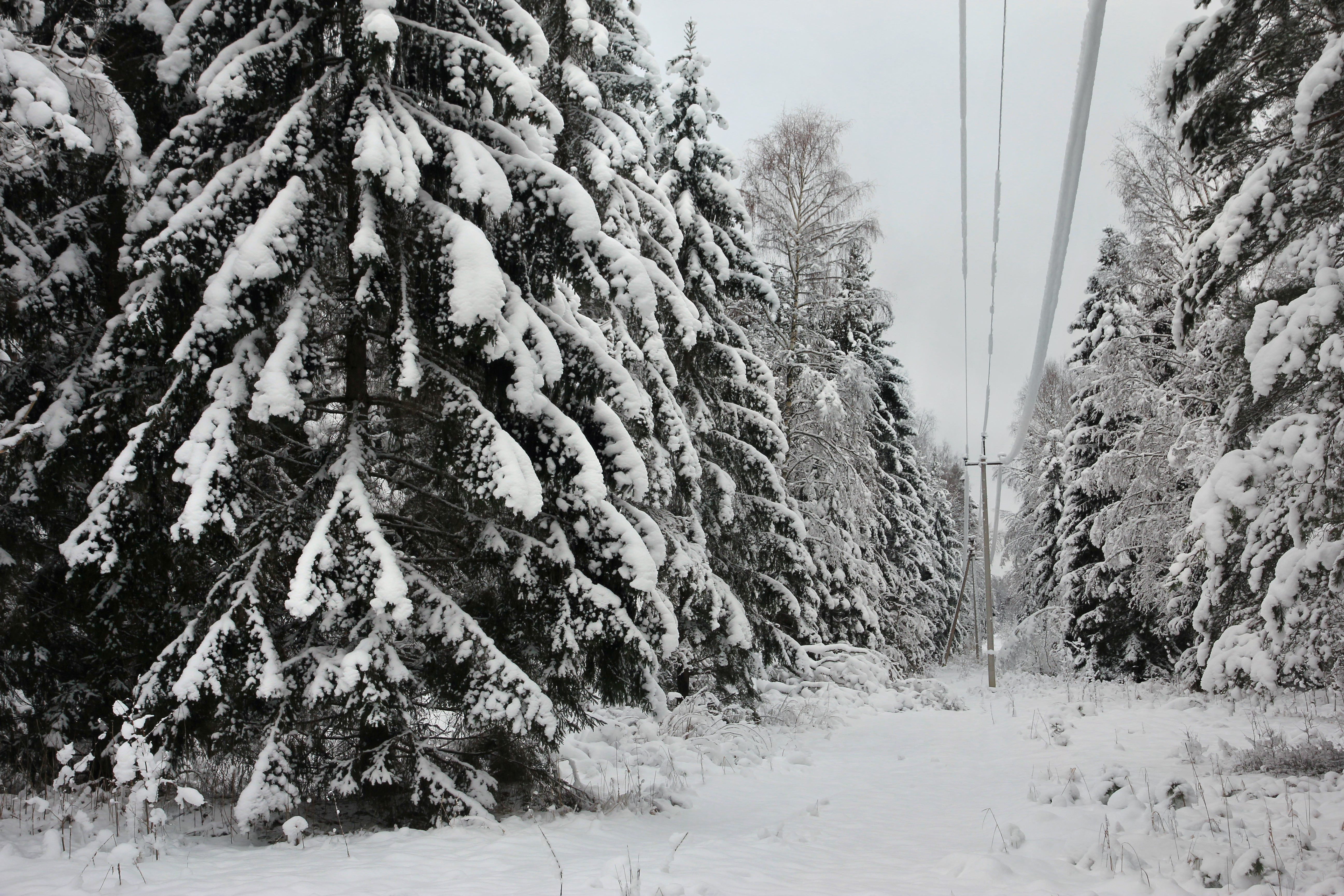 Conifer forest in the Pillapalu.Estonia